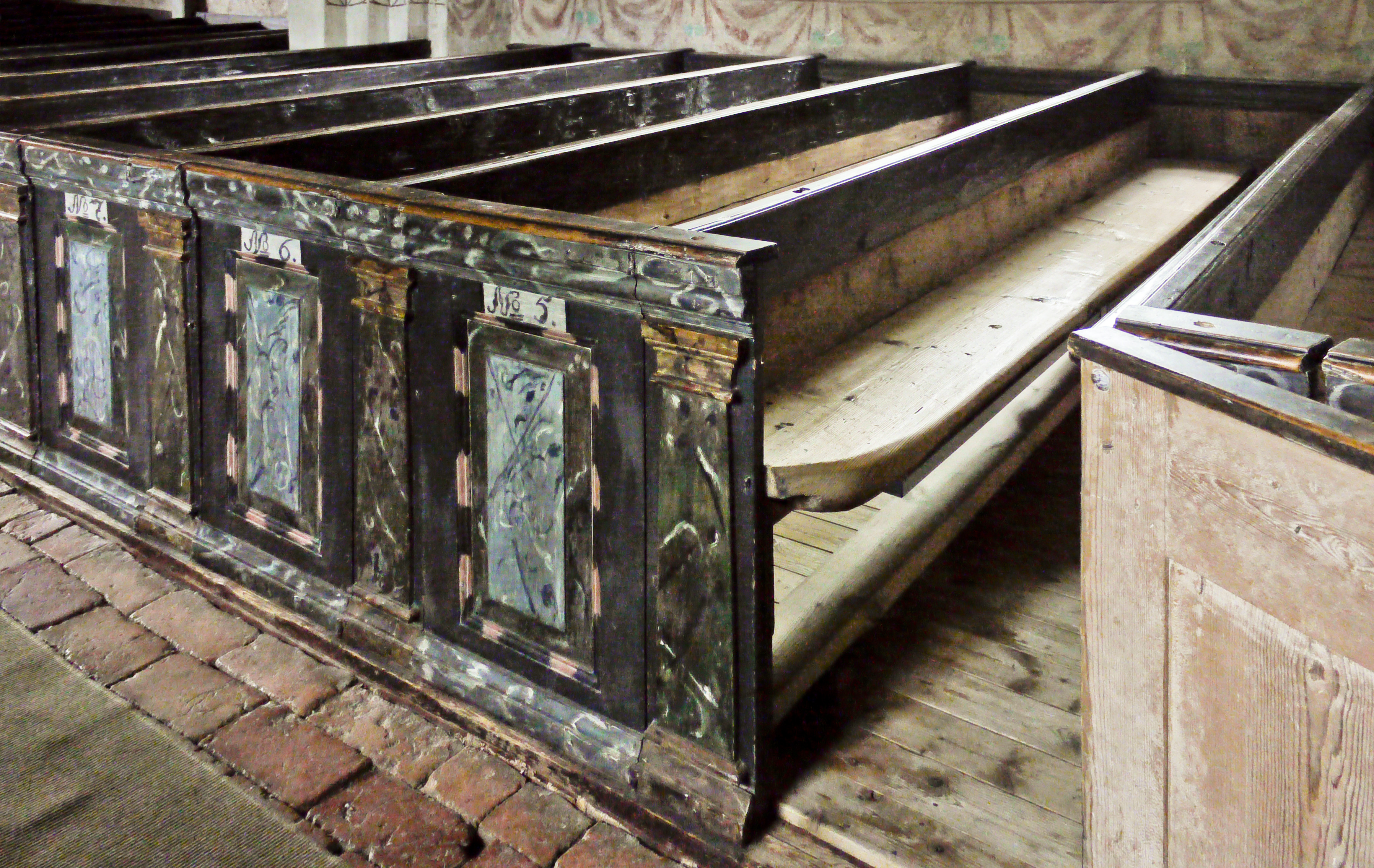 Härkeberga kyrka/church. Diocese of Uppsala, Enköping, Sweden. Church benches.